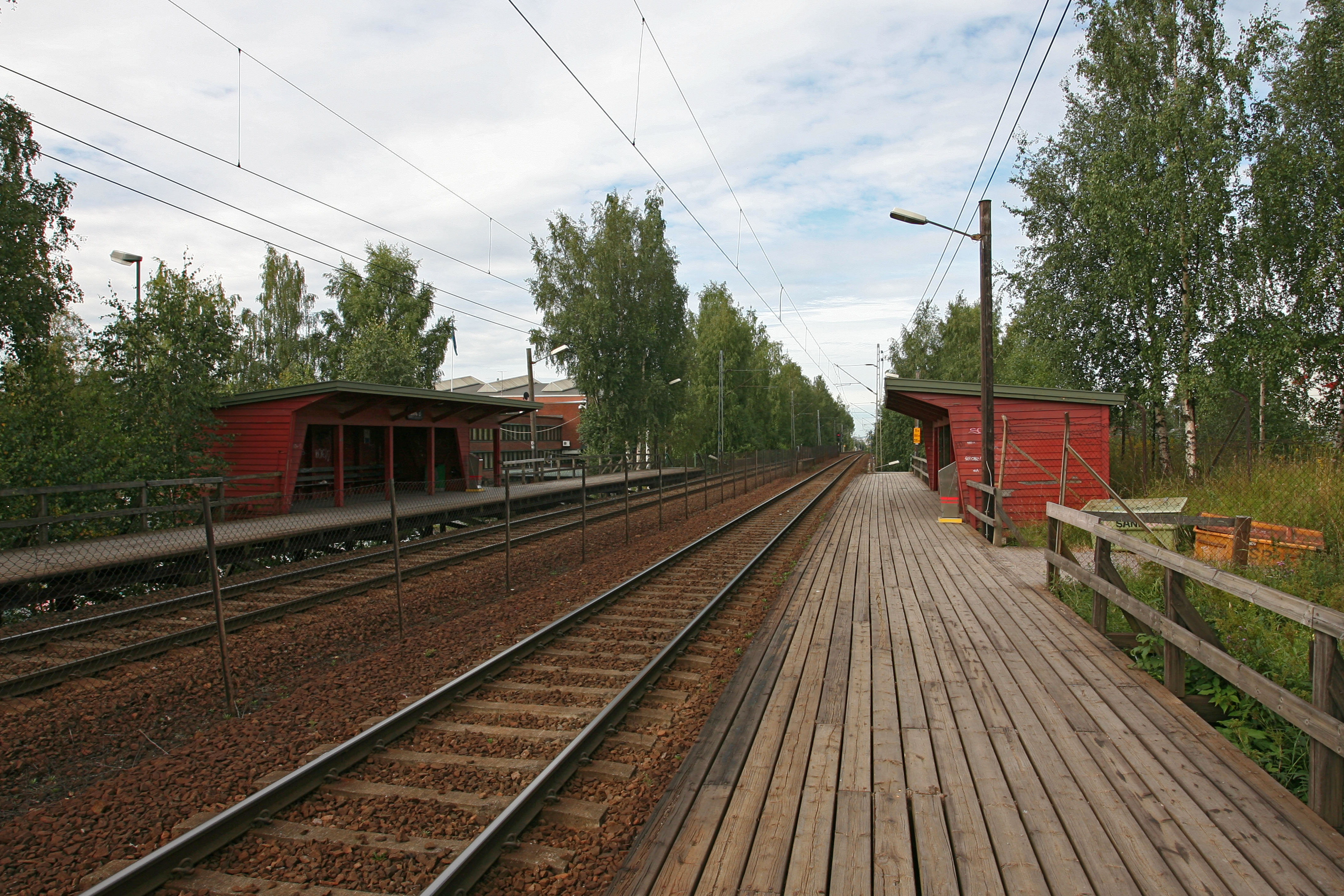 Picture of Nyland Railway Station (Norway)